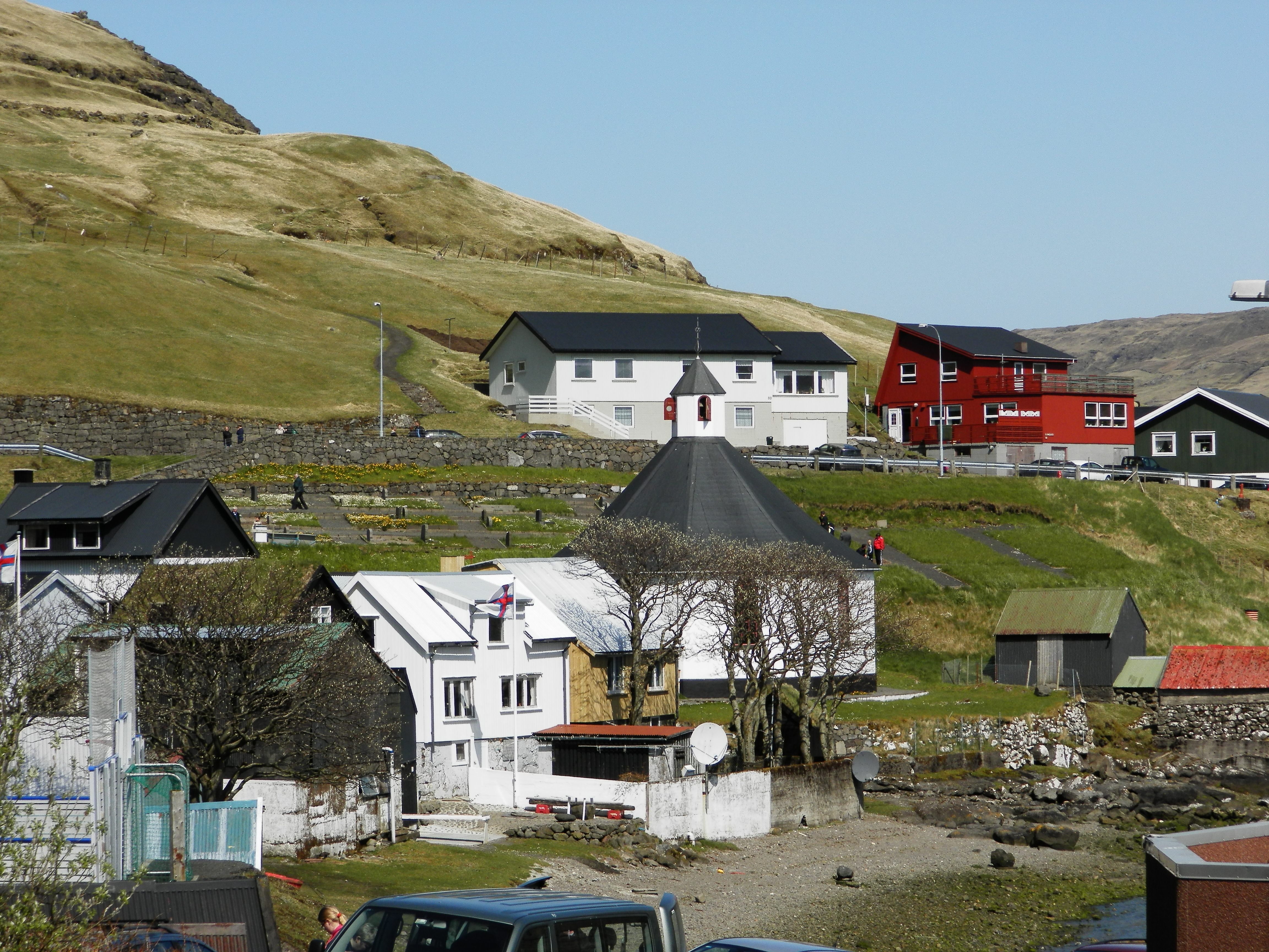 Haldarsvík is a village in the northern part of Streymoy, Faroe Islands. This photo was taken on 19 May 2013. Haldarsvík church was built in 1856 and rebuilt in 1932.